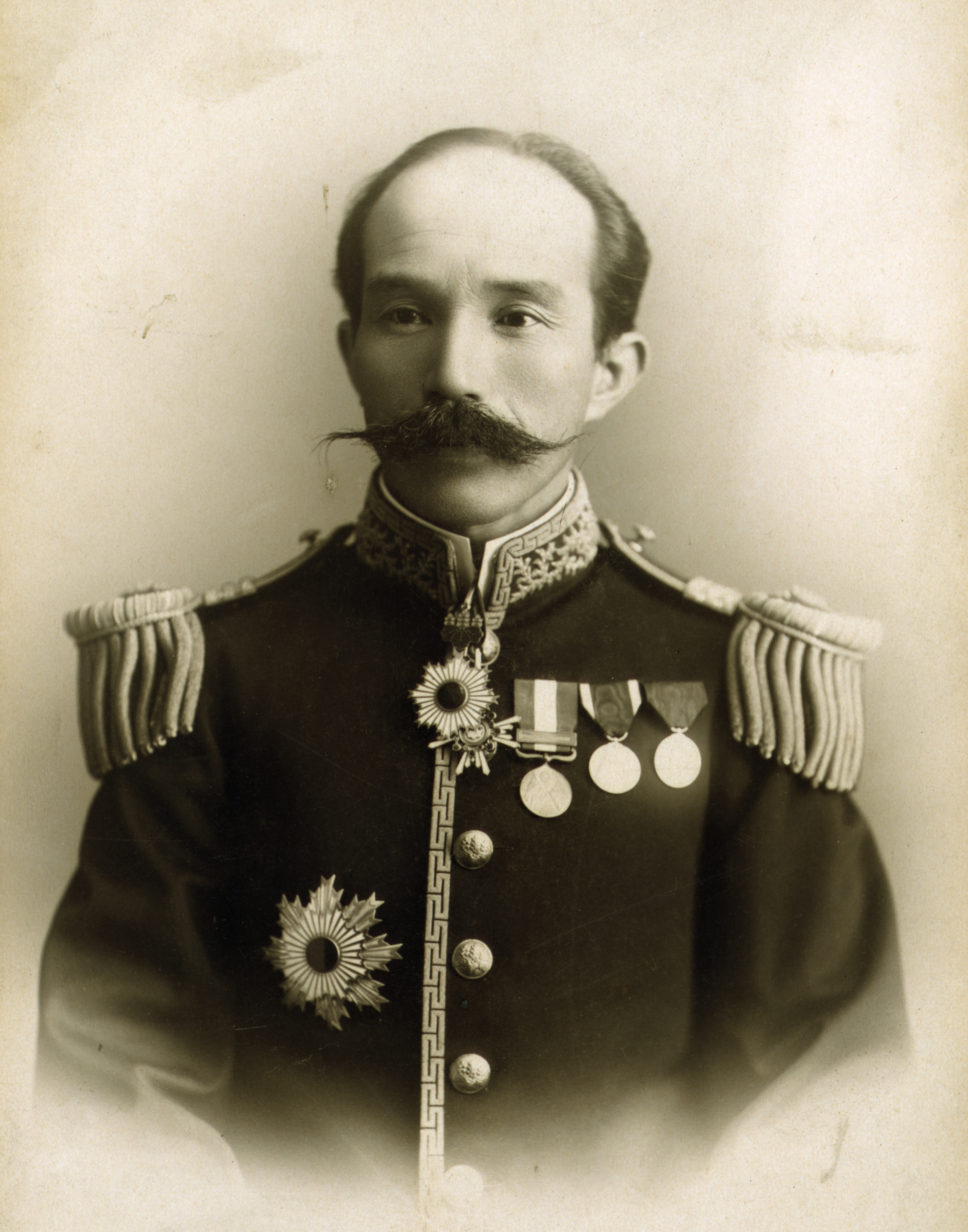 Baron Kentarō Kaneko, half-length portrait, in uniform, facing front